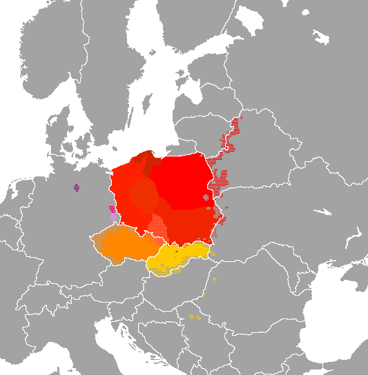 West Slavic languages. Polish Kashubian Silesian Polabian † Lower Sorbian Upper Sorbian Czech Slovak